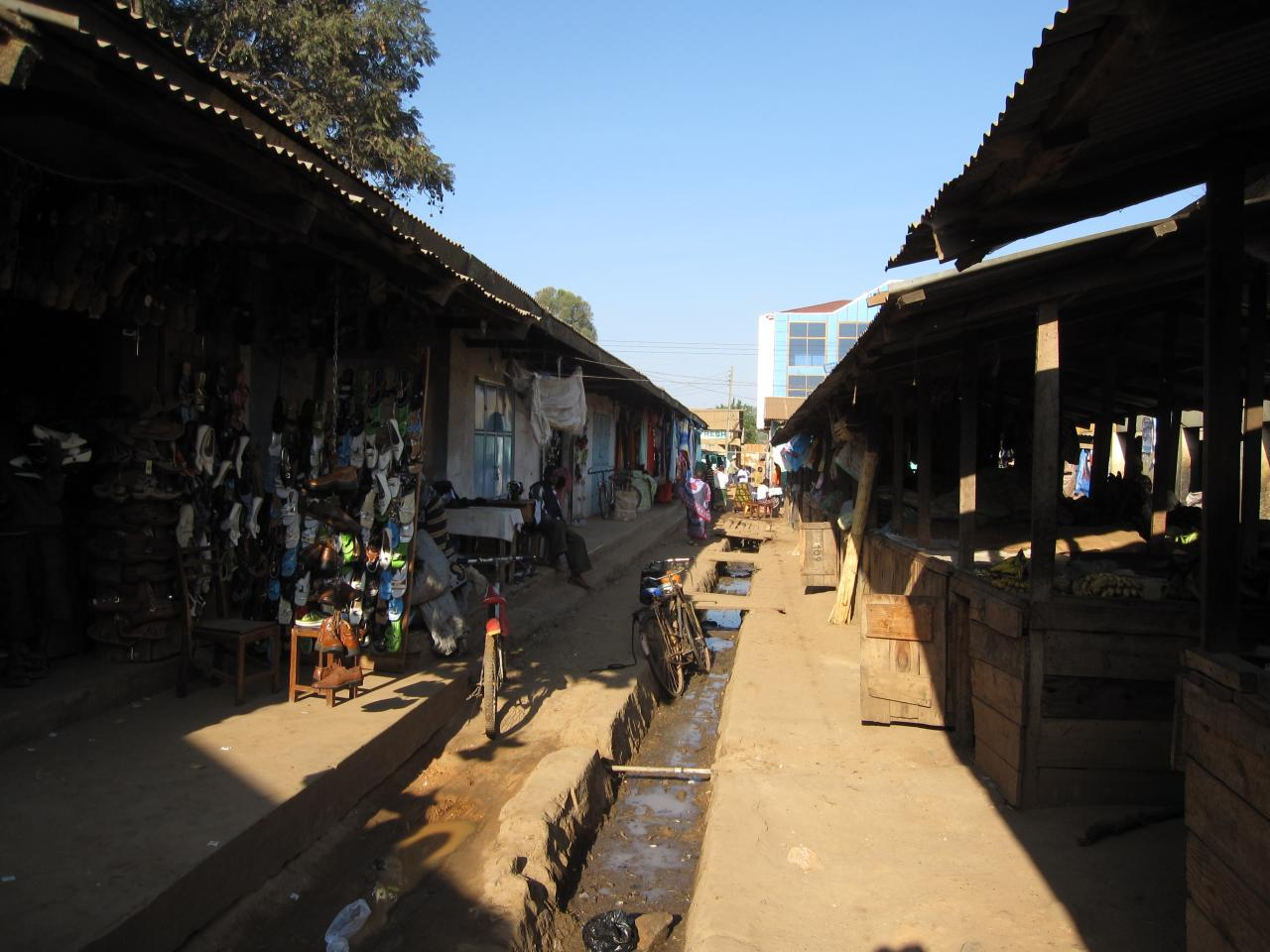 Sumbawanga Market, Tanzania